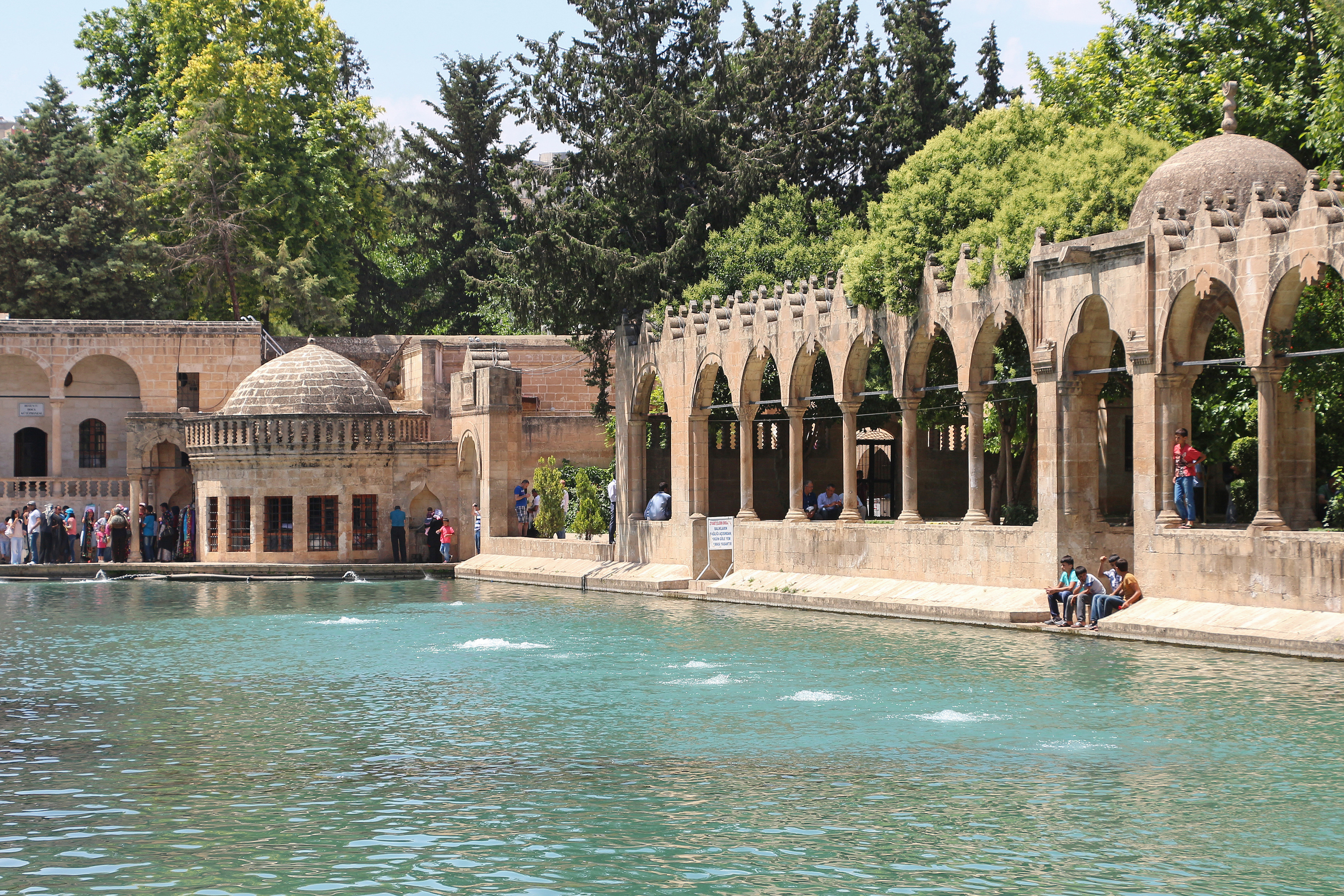 Balikli Göl, Şanlıurfa, Turkey